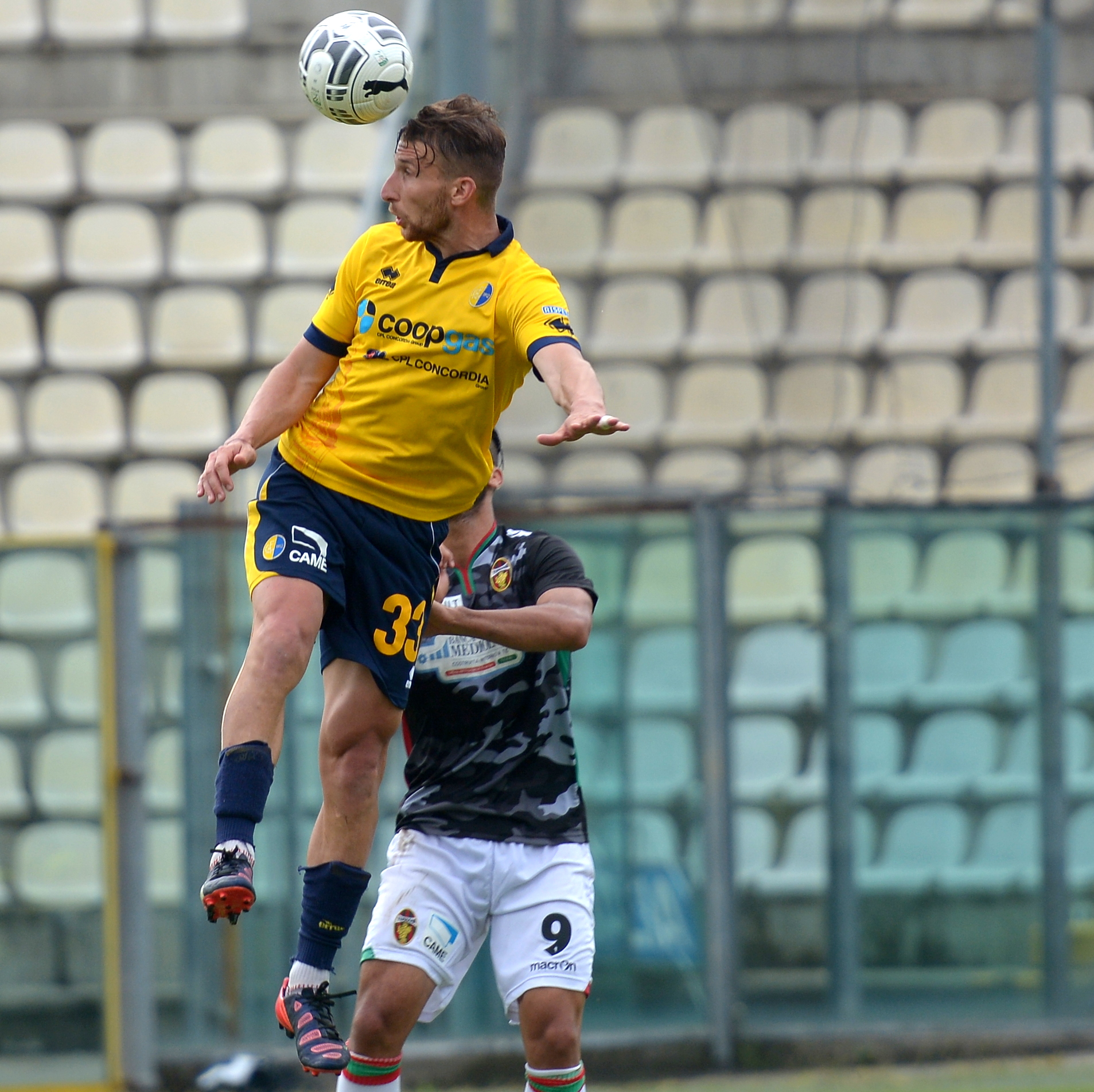 Matteo Rubin in action during the match Modena versus Ternana